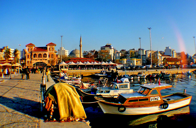 A View Of Bandirma From Old Port